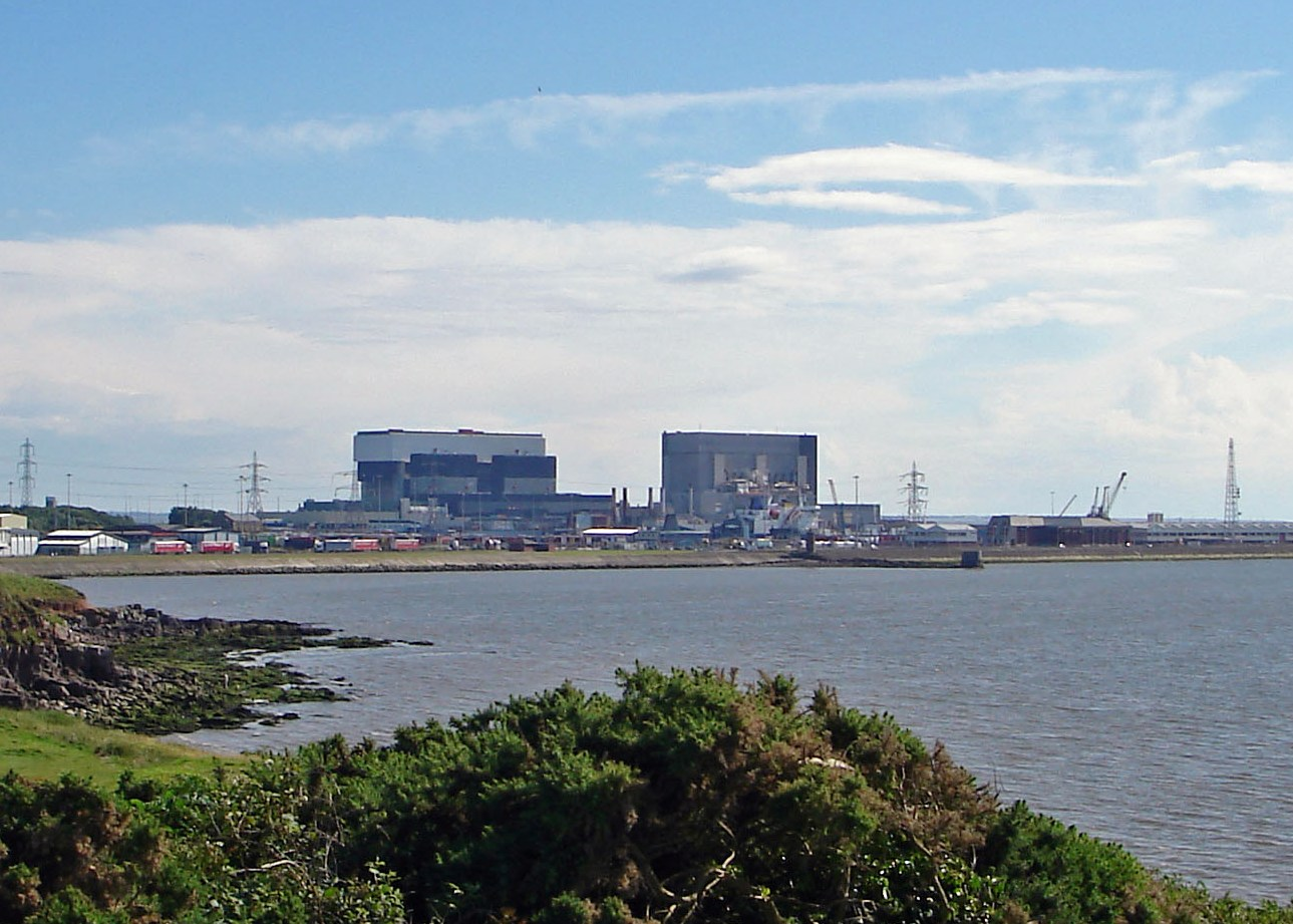 The two power stations with four AGRs at Heysham.